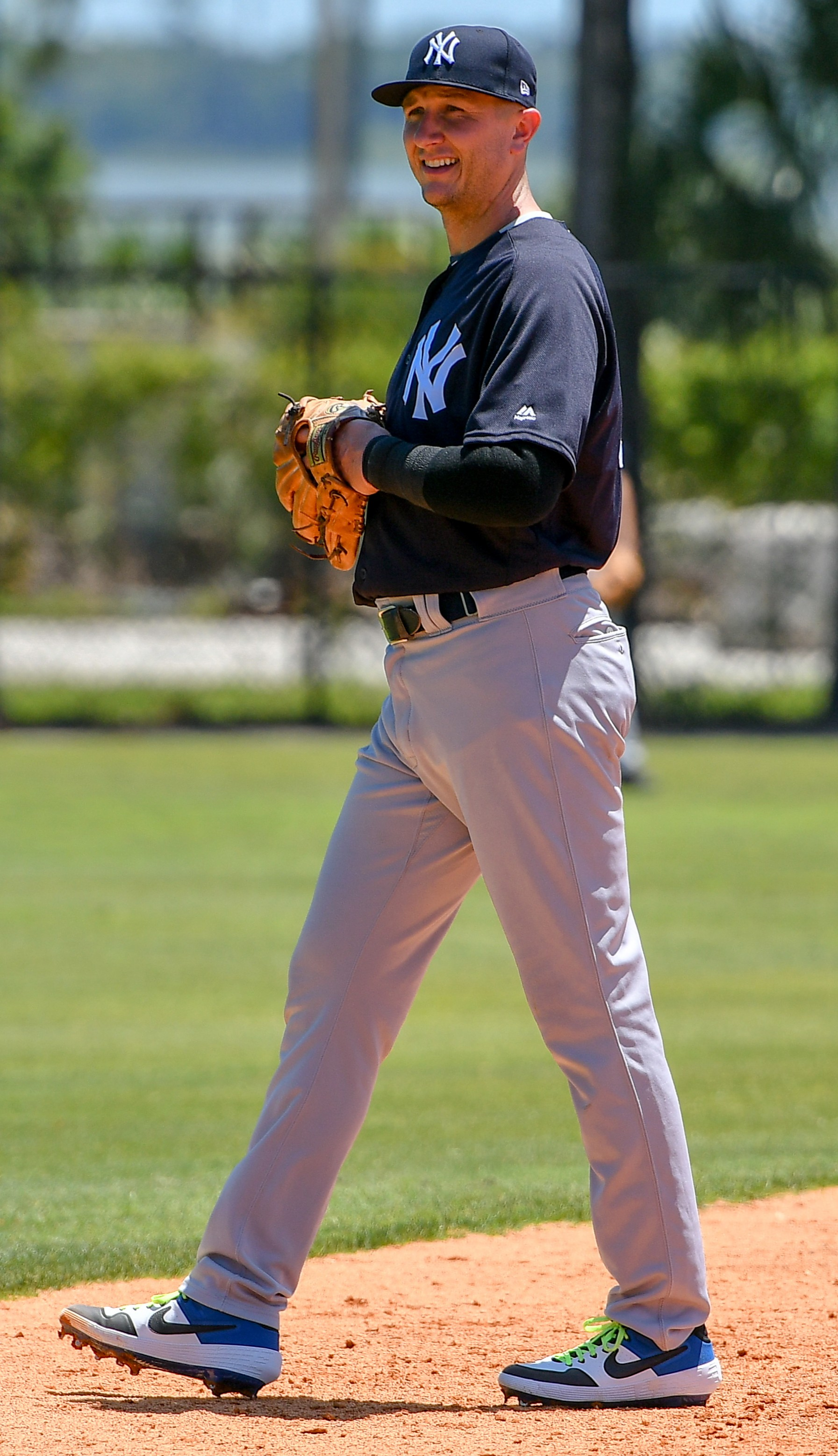 Troy Tulowitzki. Detroit Tigers v New York Yankees. Extended spring training. Tigertown. Lakeland, Fla. April 29, 2019. (Photo by Tom Hagerty.)